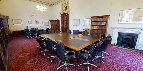 One of the rooms often used for parliamentary inquires, public hearings and other purposes for parliamentary committees within the Parliament of Victoria.